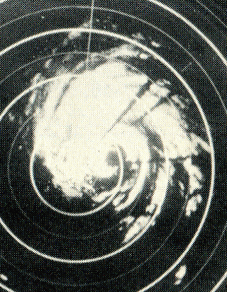 This New Orleans radar image of Hurricane Camille was taken less than 50 miles from its center on August 17, 1969 at 2200 CST